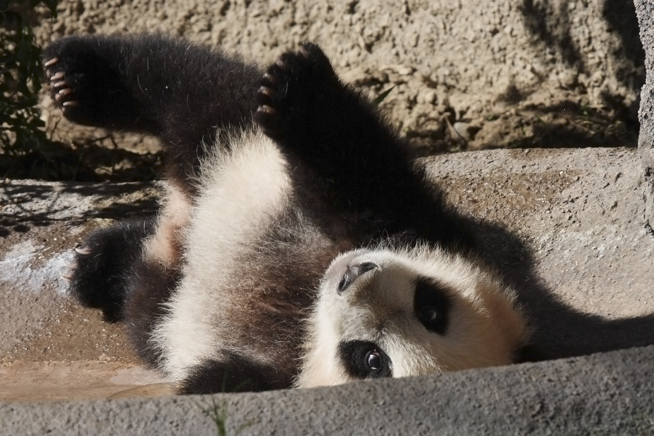 Yun Zi the new Giant Baby Panda in Action at the San Diego Zoo Jan 24th 2010 Yun Zi - Baby Giant Panda, a male giant panda born at the San Diego Zoo on August 5, 2009